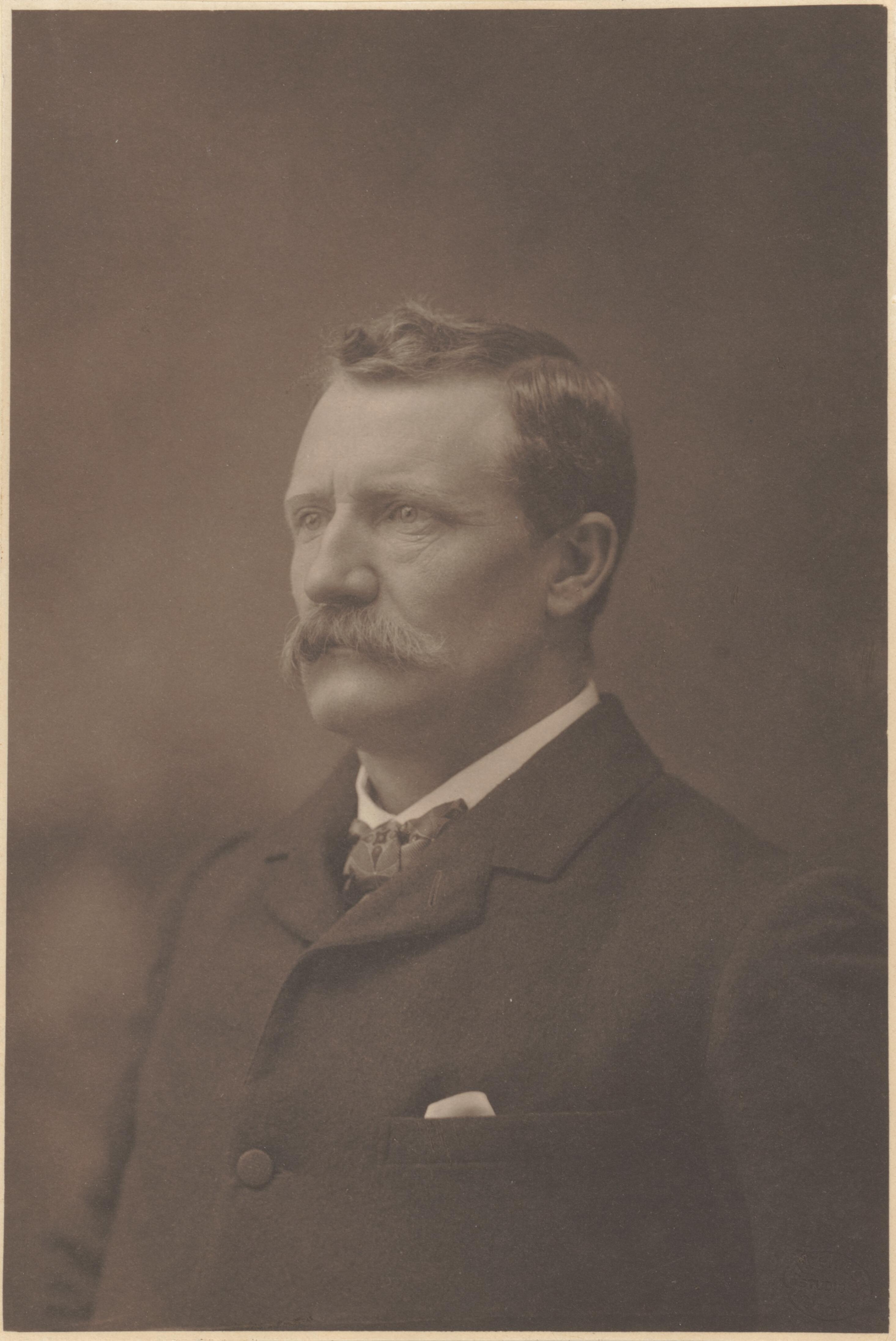 Australian politician Robert Best